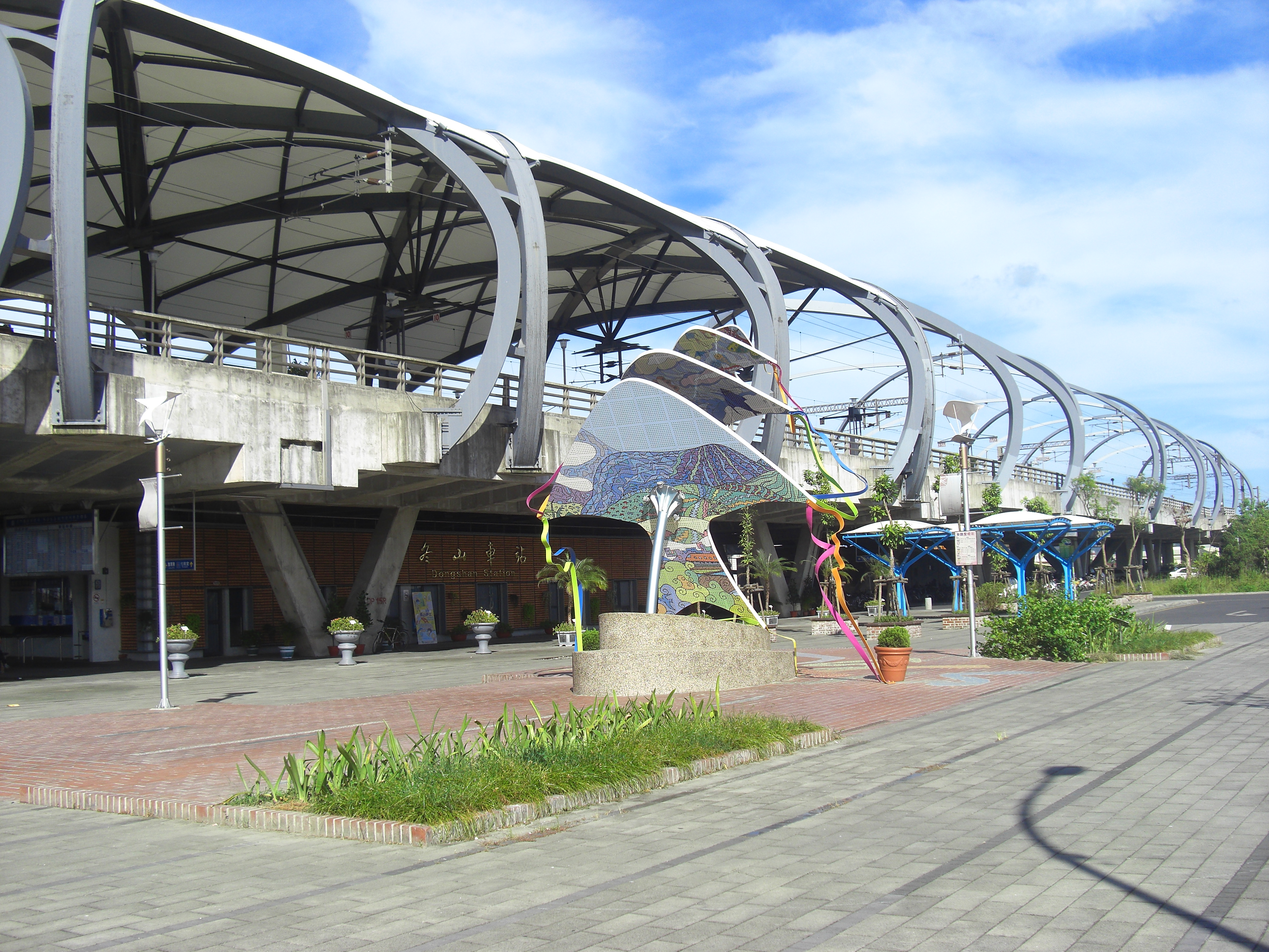 Taiwan Railway Administration Dongshan Station